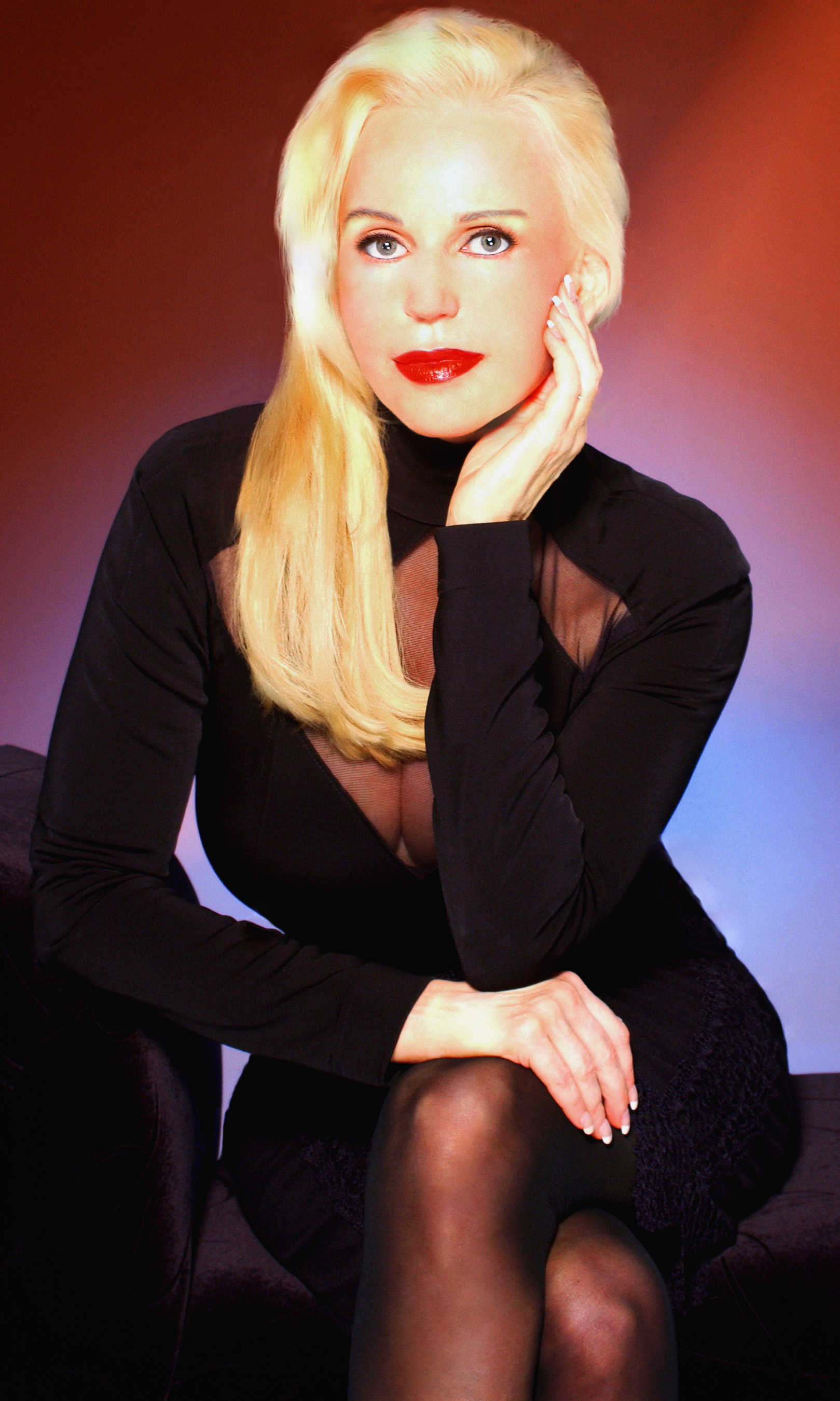 Photograph of Brenda Dickson for the cover of her book The True Hidden Hollywood Story